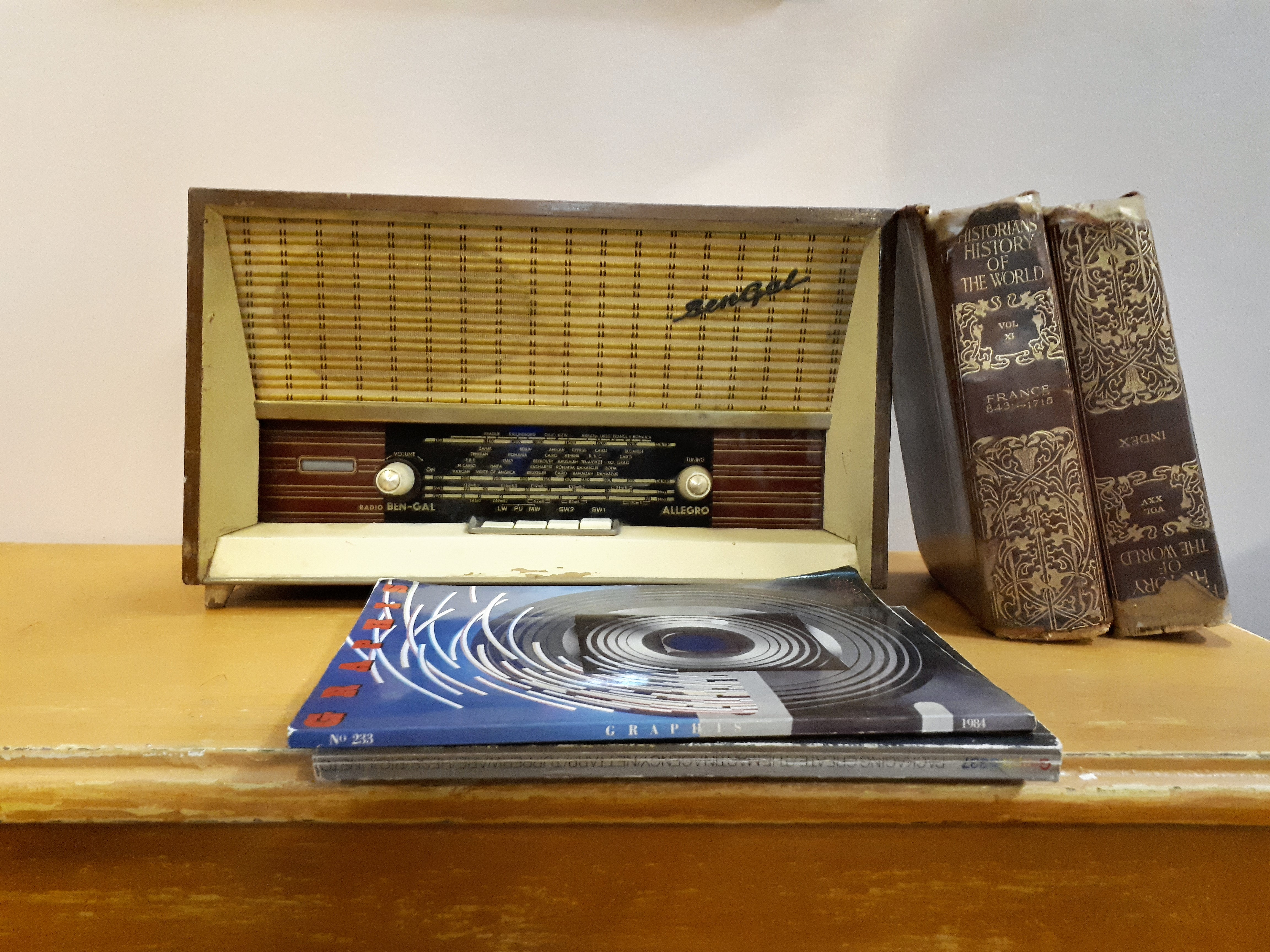 Television props at the IETV. Tel Aviv, April 2018 Including two books from The Historians' History of the World, an old radio set, and several magazines.